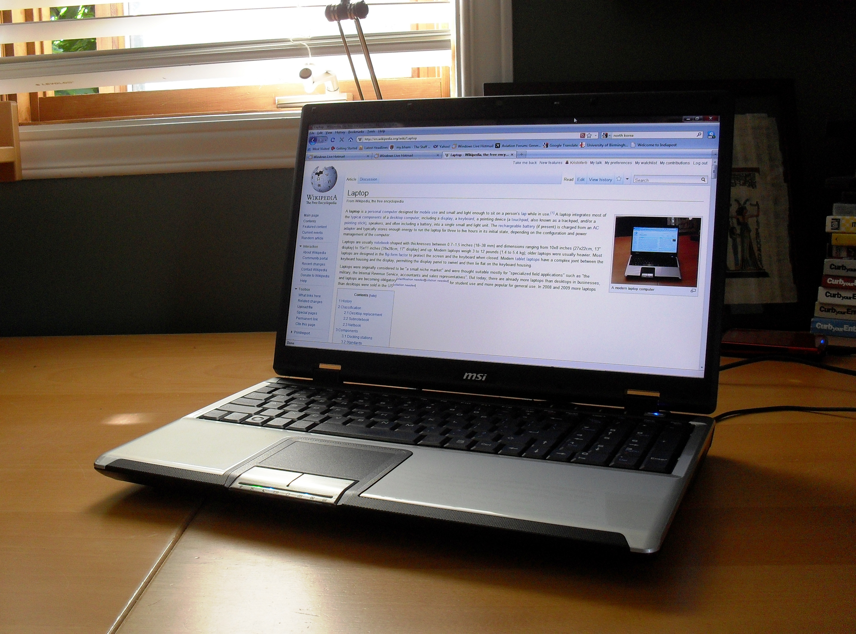 English Wikipedia screenshot on MSI laptop computer.